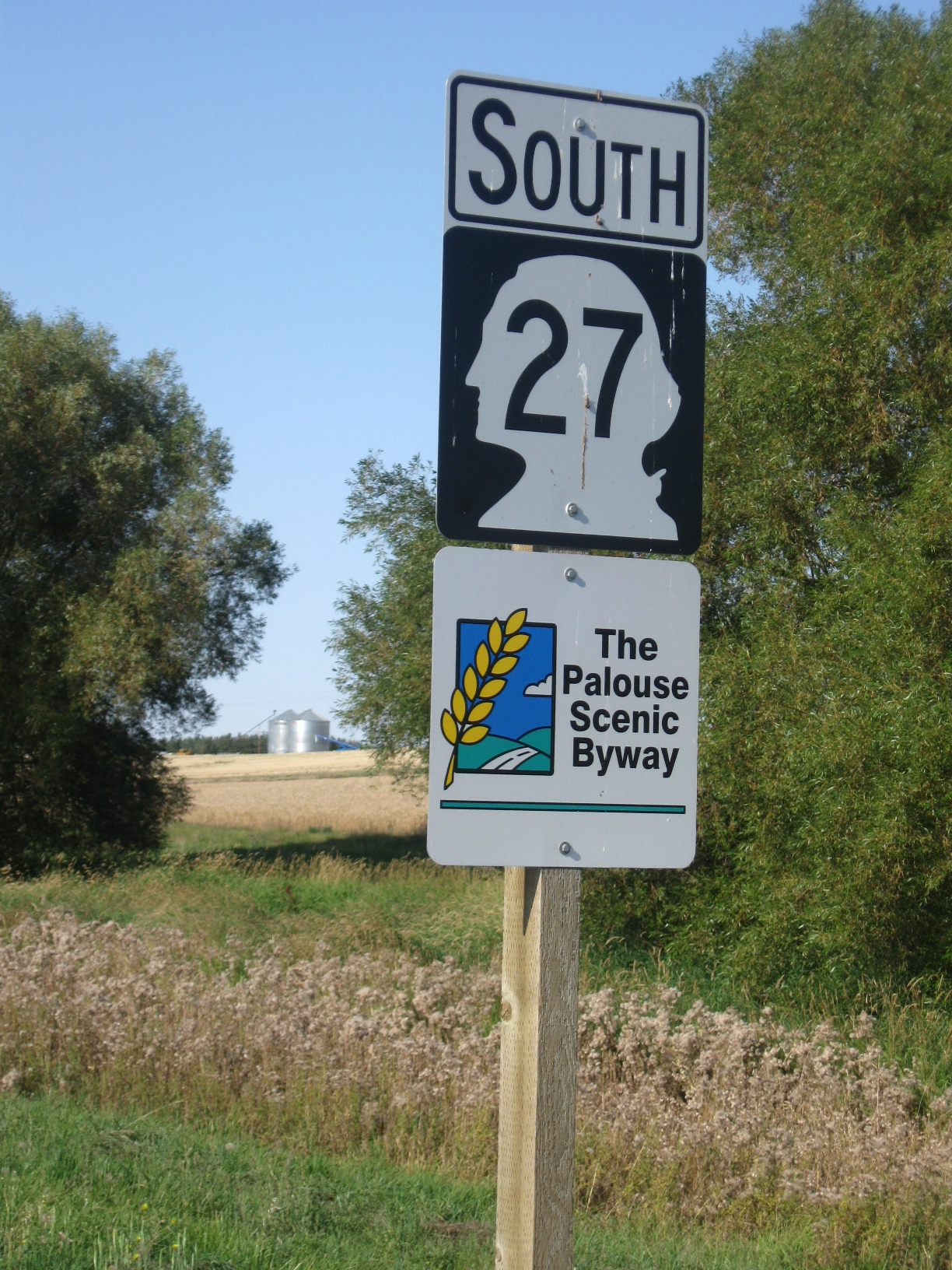 A reassurance shield for Washington State Route 27 and the Palouse Scenic Byway south of Tekoa, Washington.